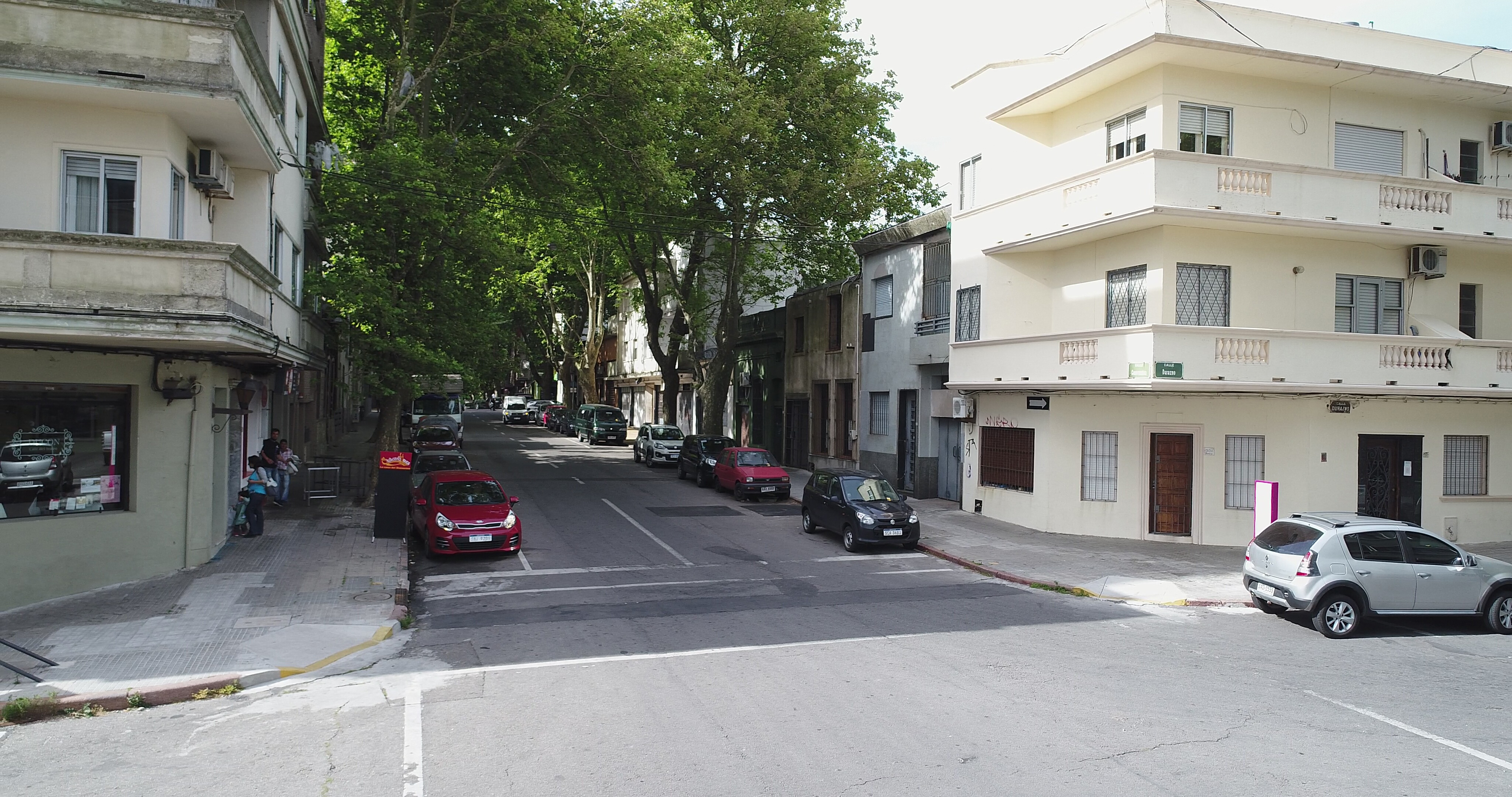 Esquina de Durazno y Convención. Montevideo